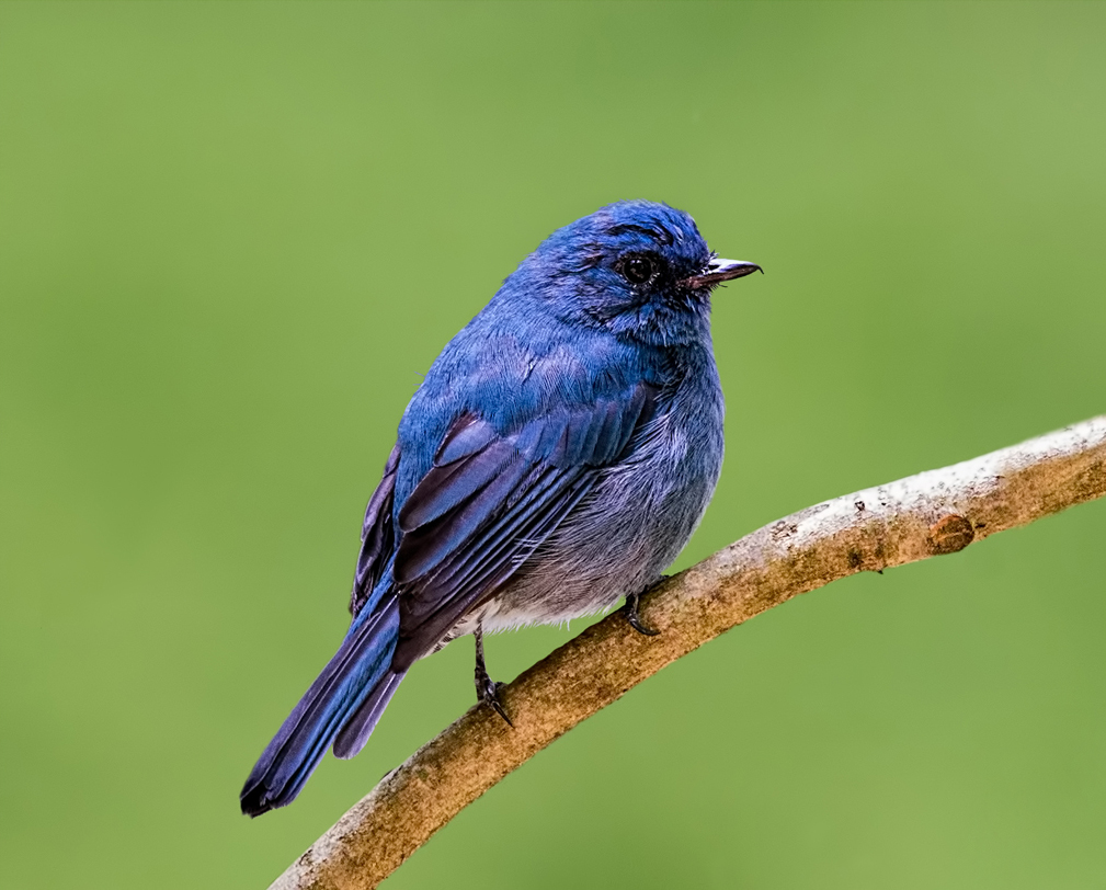 The Nilgiri Flycatcher by Antony Grossy